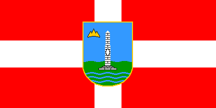 Flag of Livno